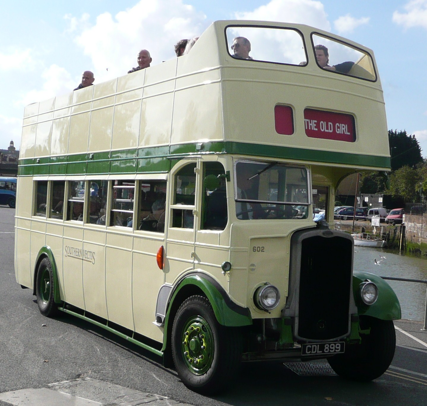 Southern Vectis 602 The Old Girl (CDL 899), a Bristol K5G at Newport Quay, Isle of Wight on a run from the 2008 Isle of Wight bus museum running day.